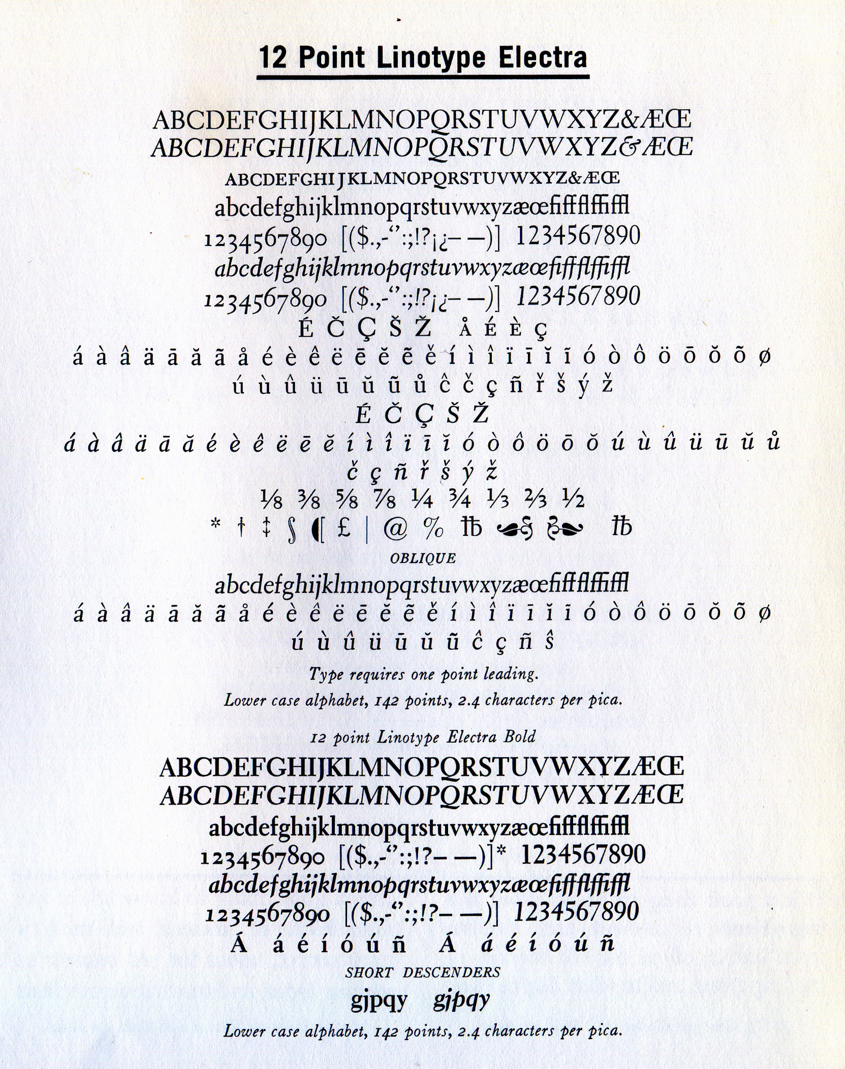 Specimen by Plimpton Press